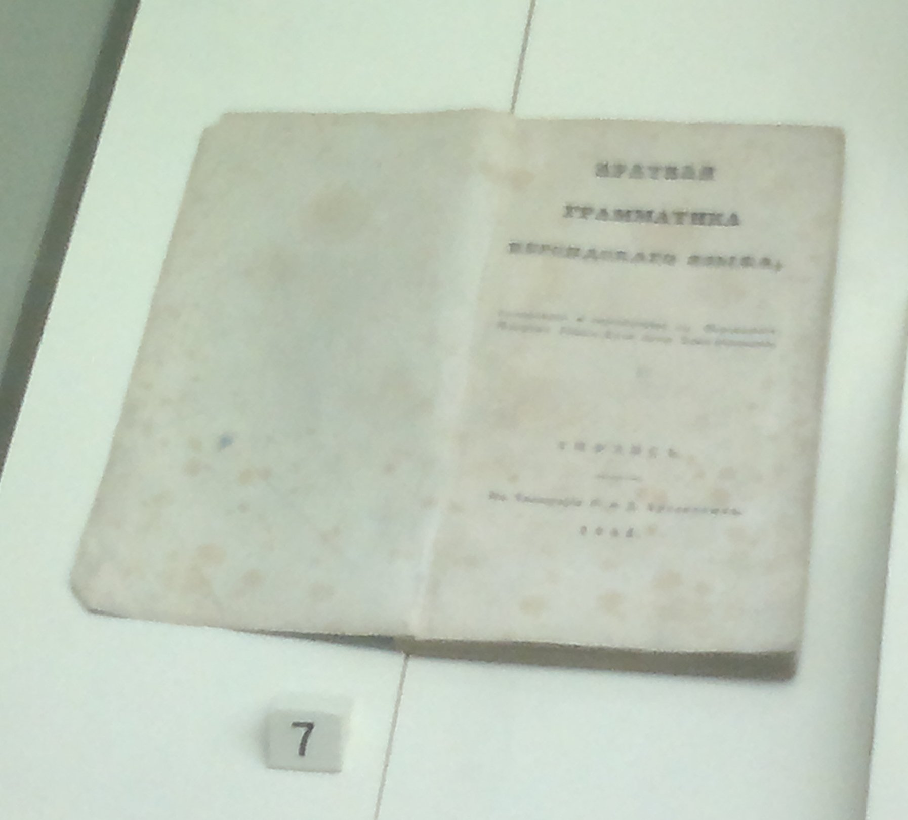 Short gramma of Persian language by Abbasgulu agha Bakikhanov (Tiflis, 1841).